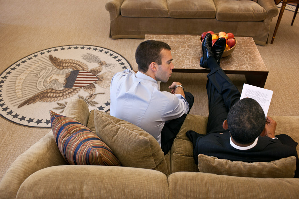 Speechwriter Jon Favreau works with U.S. President Barack Obama on the 2011 State of the Union Address in the Oval Office.